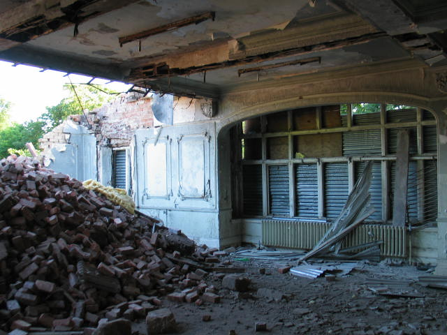 Photo taken 20/08/09 during the demolition of Greaves Hall Mansion House.